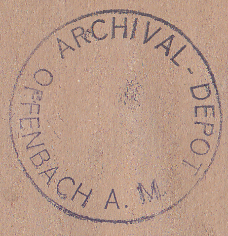 Scan of a Stamp mark of the Offenbach Archival Depot